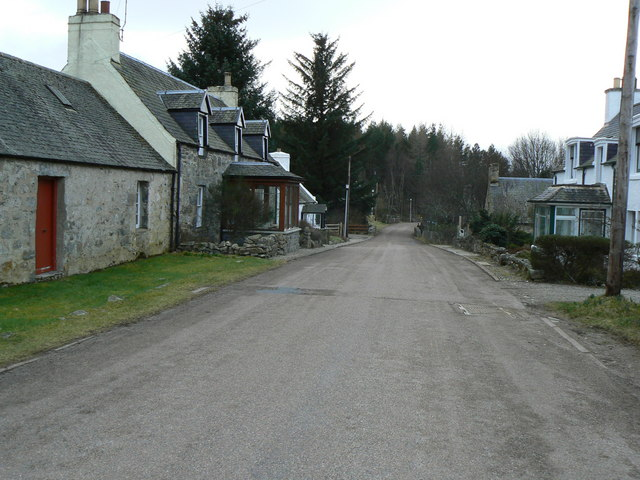 Insh